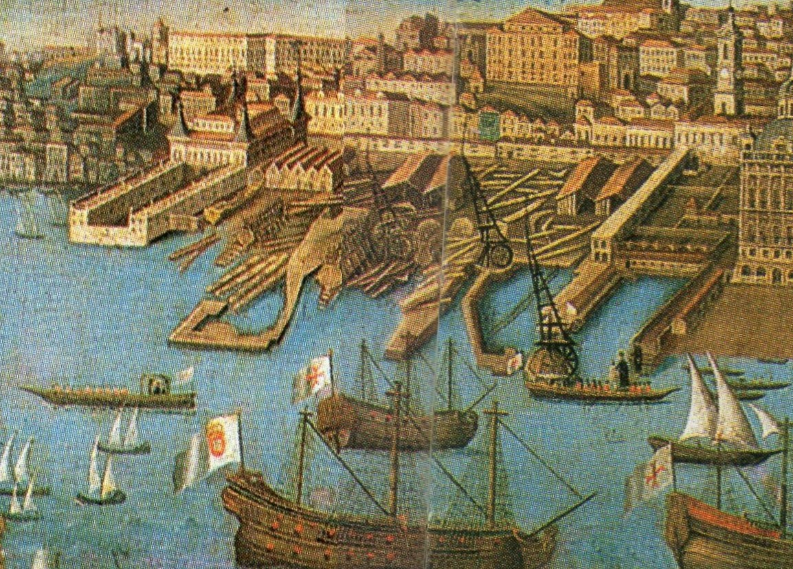 Panoramic view of Lisbon circa 1730 by an unkoun artist.